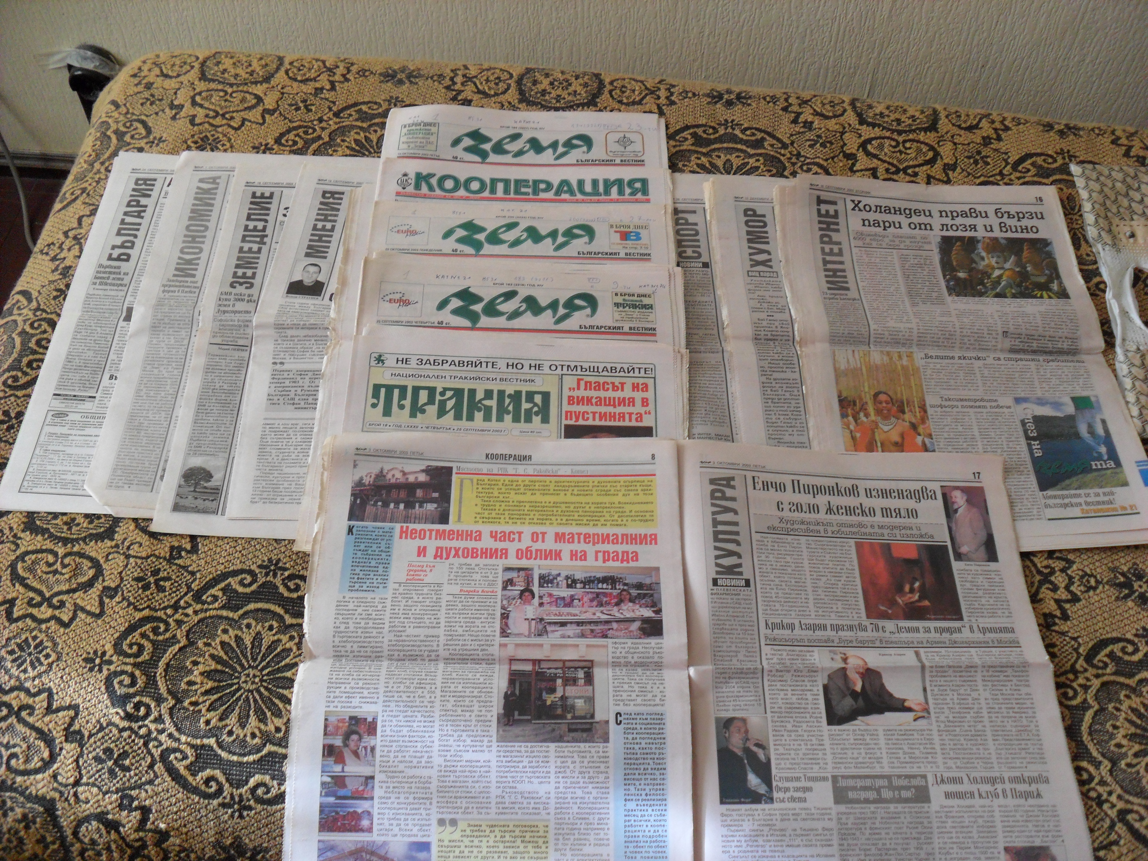 Titles and pages of the Bulgarian newspaper Zemia